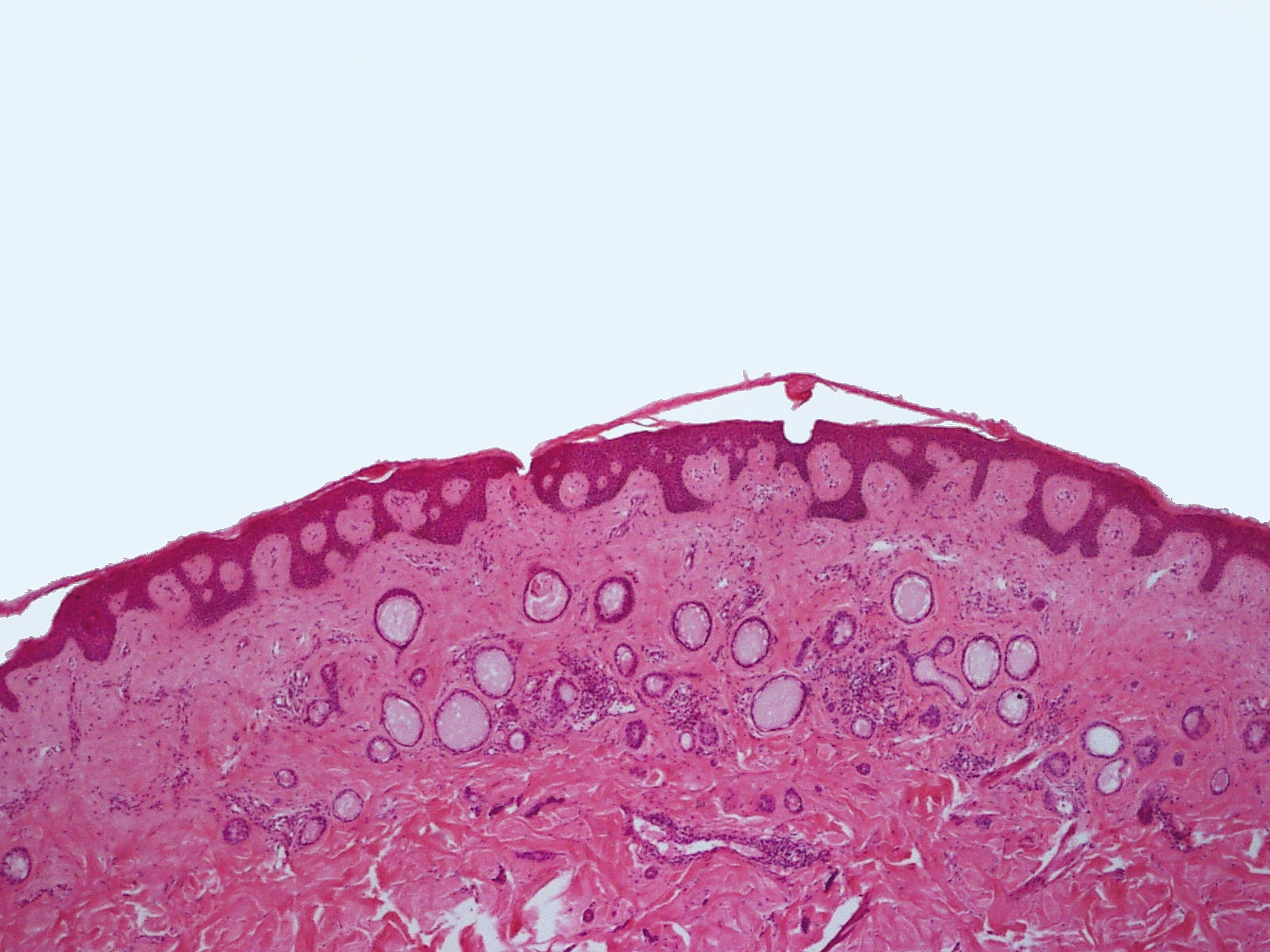 Syryngioma (eccrine)